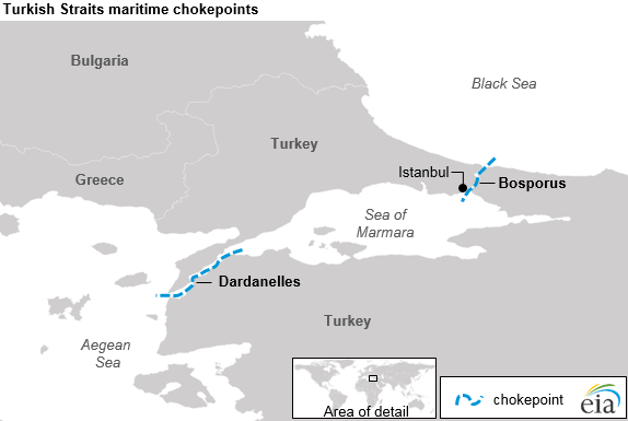 An estimated 2.4 million b/d of crude oil and petroleum products flowed through the Turkish Straits in 2016, more than 80% of which was crude oil. August 18, 2017